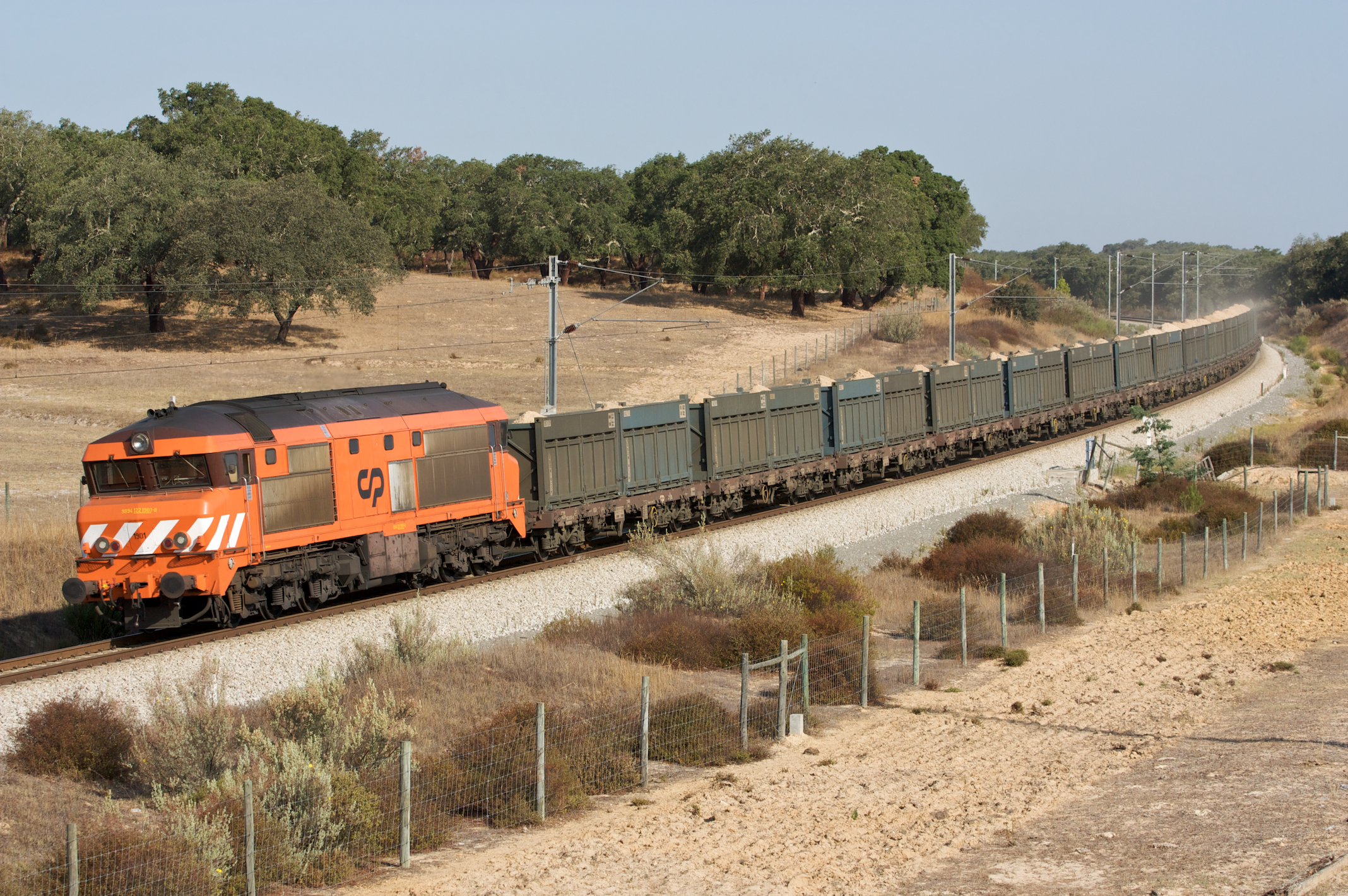 CP 1901 with a sand train to Neves Corvo (underground copper and zinc mine in the western part of the Iberian Pyrite Belt.